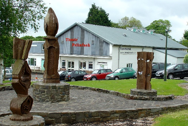 Theatr Felinfach near Ystrad Aeron.